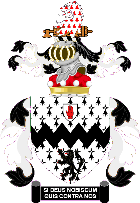 The armorial achievement of The Lord Killanin